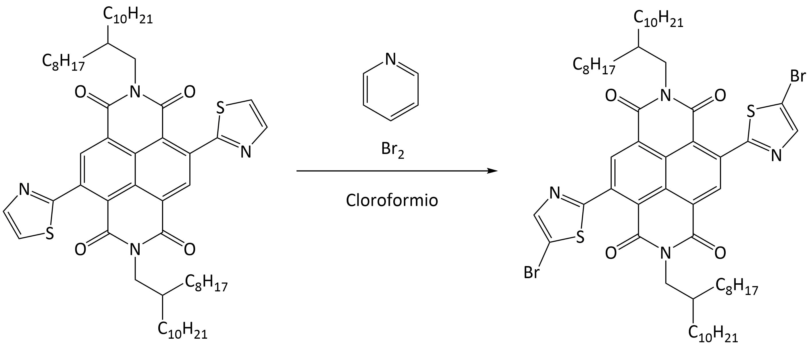 Bromination of NDI2OD-Tz2